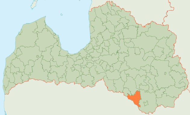 Map of Iūkste